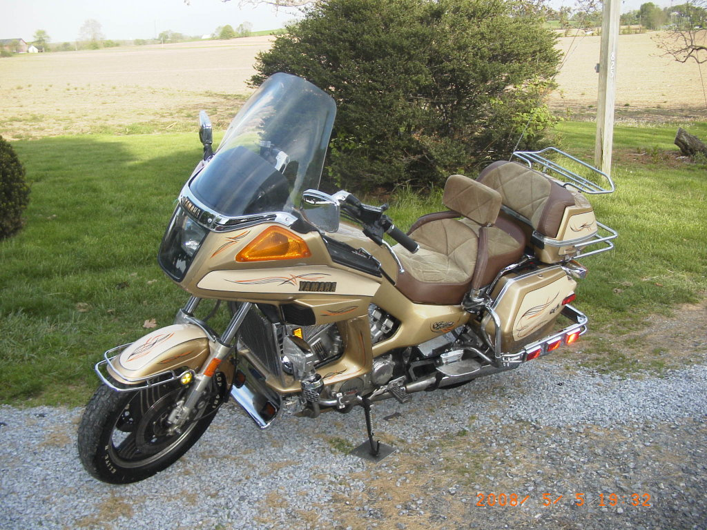 1983 MK1 Yamaha Venture Royale - This bike is the very first Venture produced.